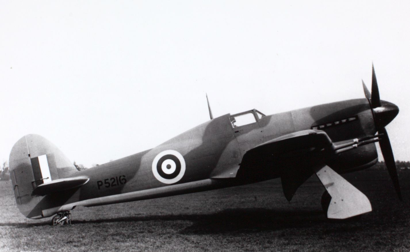 Image from the Charles Daniels Photo Collection album "British Aircraft." SOURCE INSTITUTION: San Diego Air and Space Museum Archive